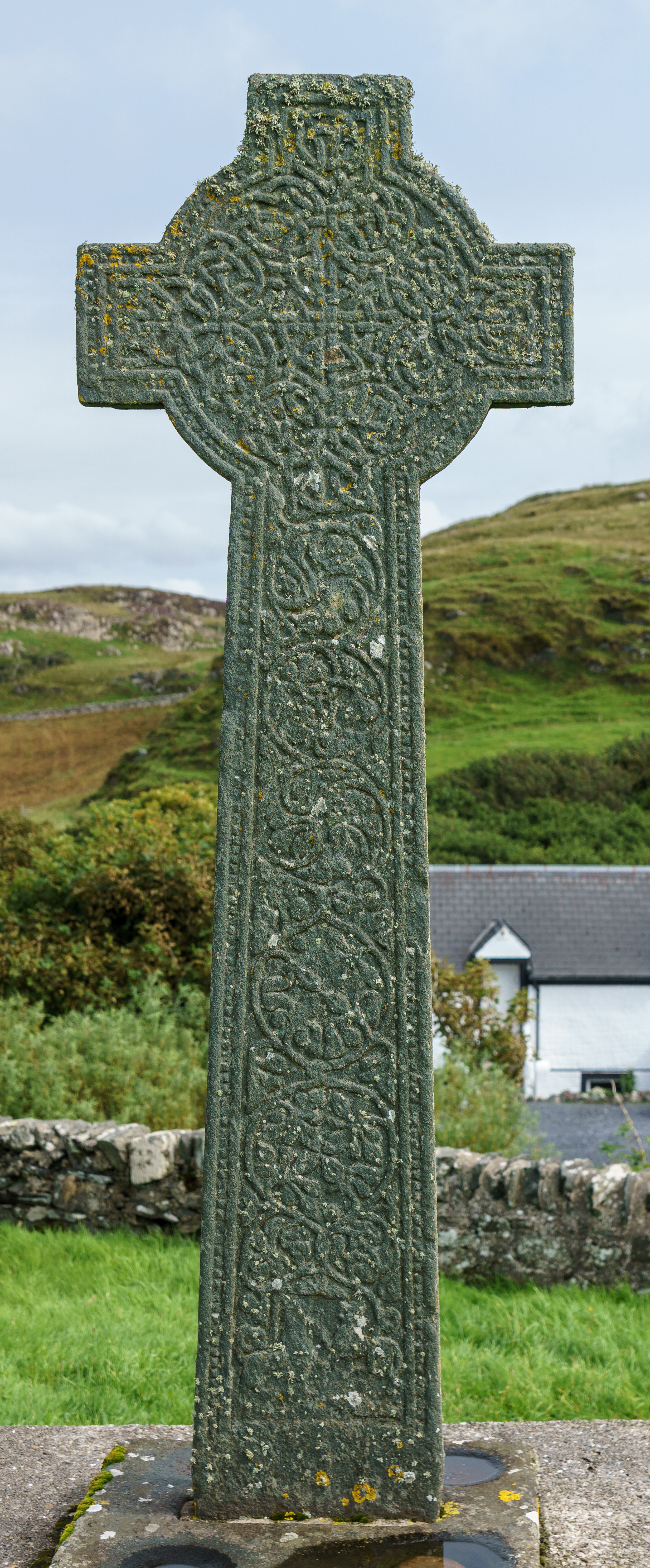 Kilchoman Cross is a high cross, 2.57m tall, 0.97m wide in the grounds of the Old Parish Church, Kilchoman, Islay. The front has a figure of Christ crucified along with saints and angels. The rear has mainly geometric designs. The design is of the Iona School, 14th-I5th century. Details found at entry (13) at Wikidata has entry Q1741245 with data related to this item.